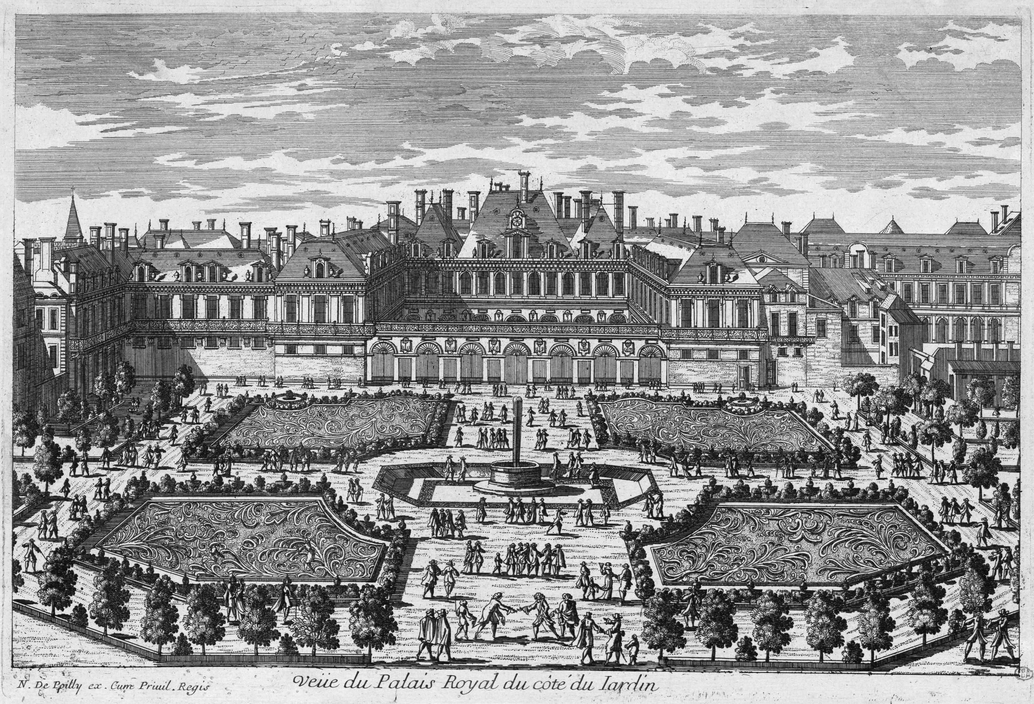 View of the Palais-Royal from the garden side